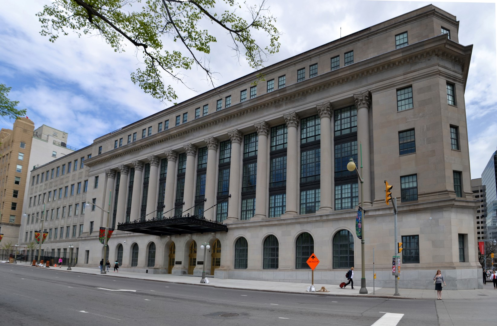 Wellington Street Facade in 2016.